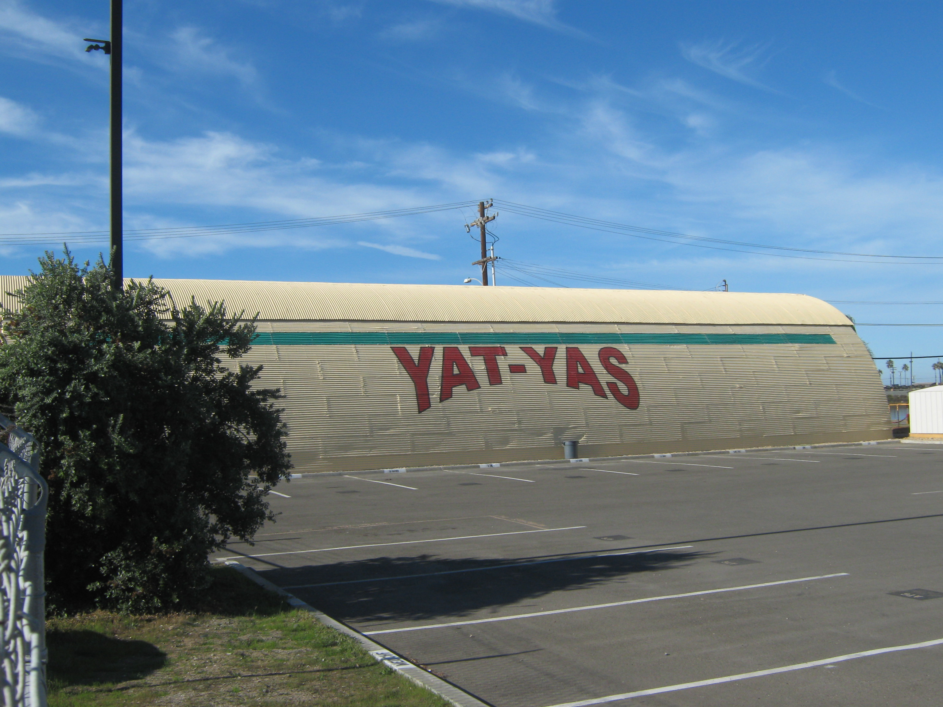 Rear of WWII/Korea LVT Museum, Kraus Street, Camp Del Mar, Marine Corps Base Camp Pendleton, California. YAT-YAS means "You Ain't Tracks, You Ain't Shit".